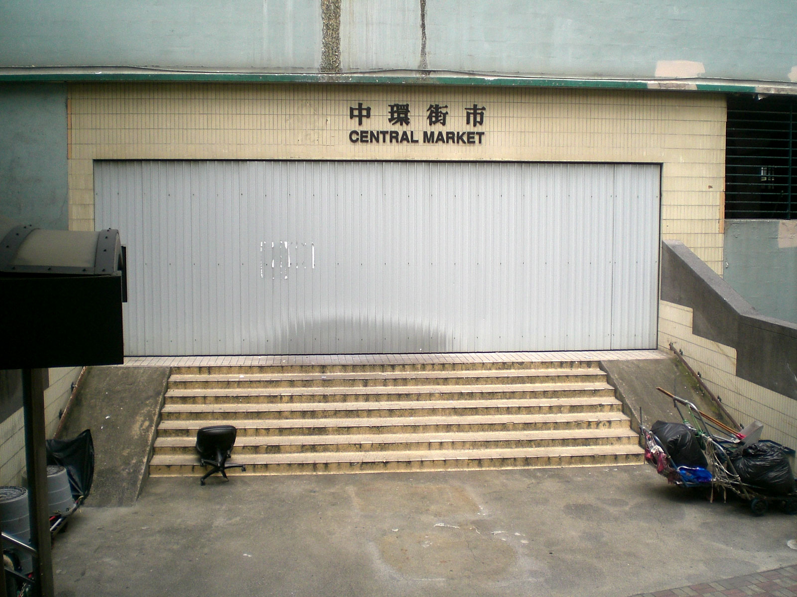 中環zh:皇后大道中